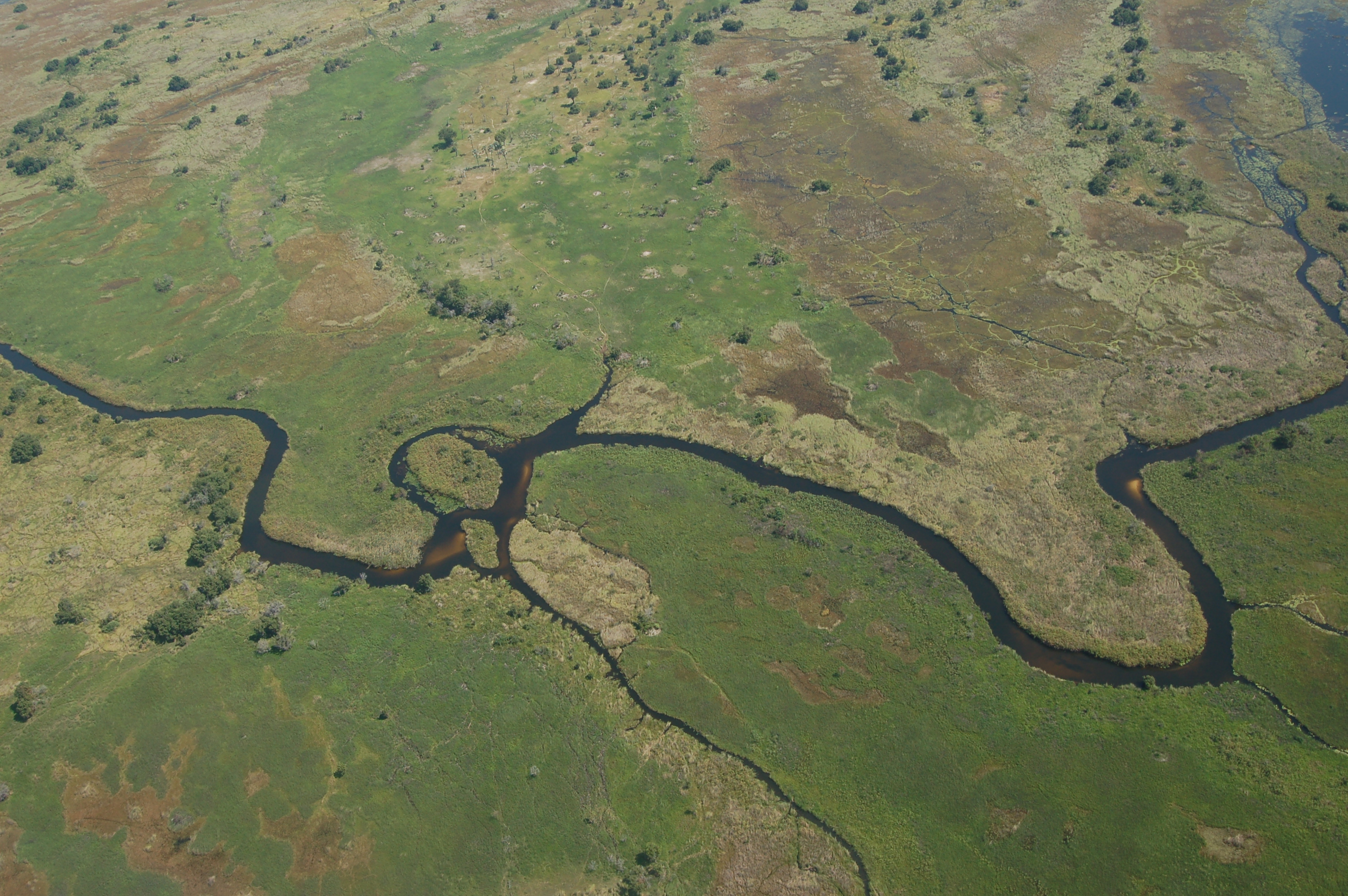 View on the Okavango Delta